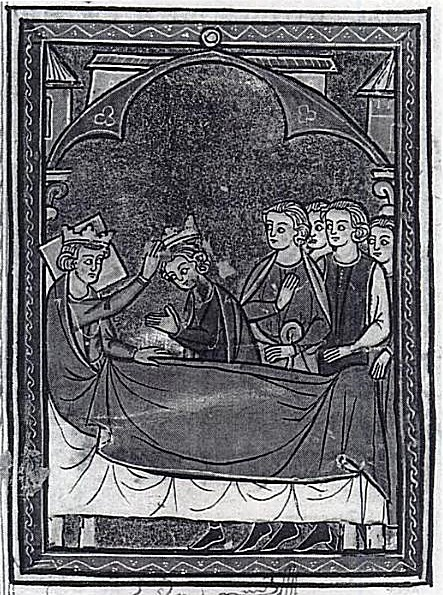 Baldwin IV on his deathbed passes the crown to Bladwin V